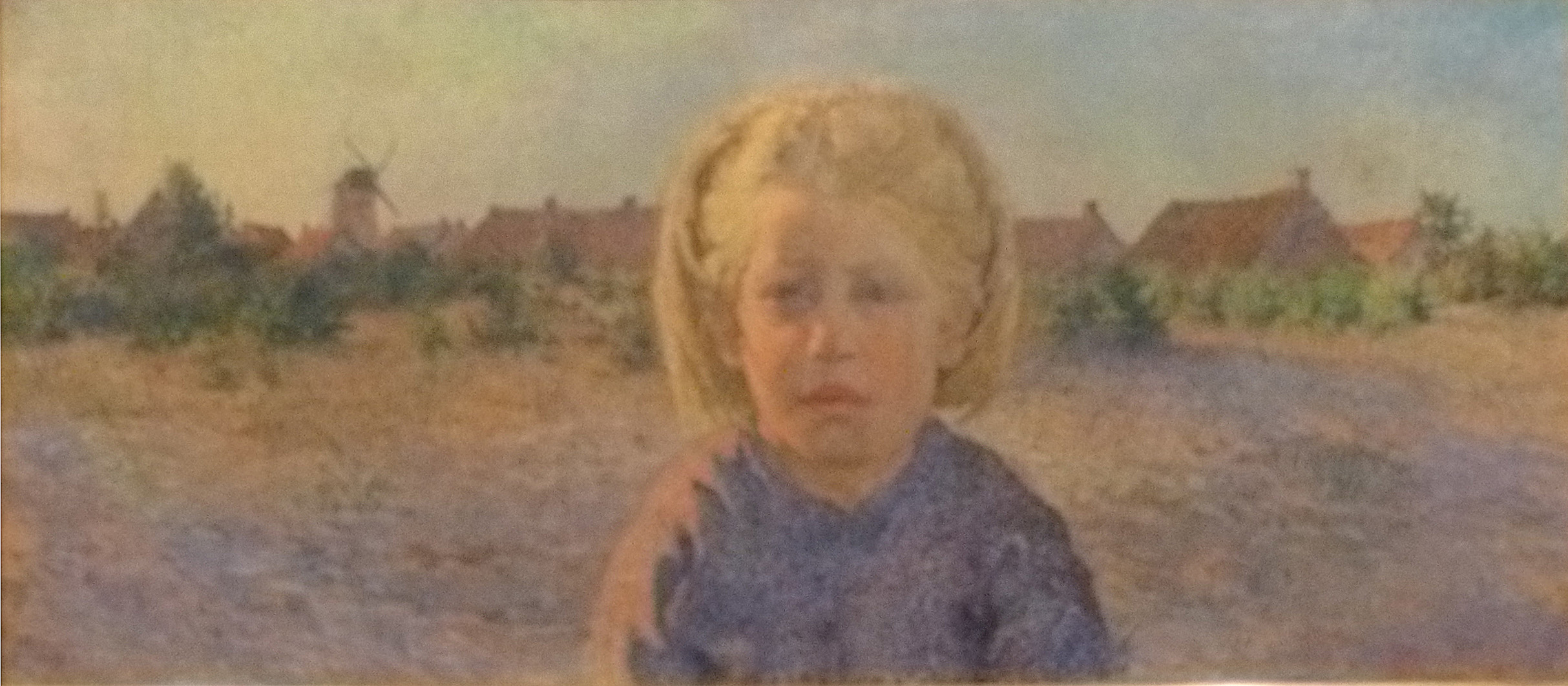 "Young Girl", oil on canvas (40 x 90 cm) by the Belgian painter Victor Charles Hageman (1868-1938); Musée d'Ixelles (Belgium)